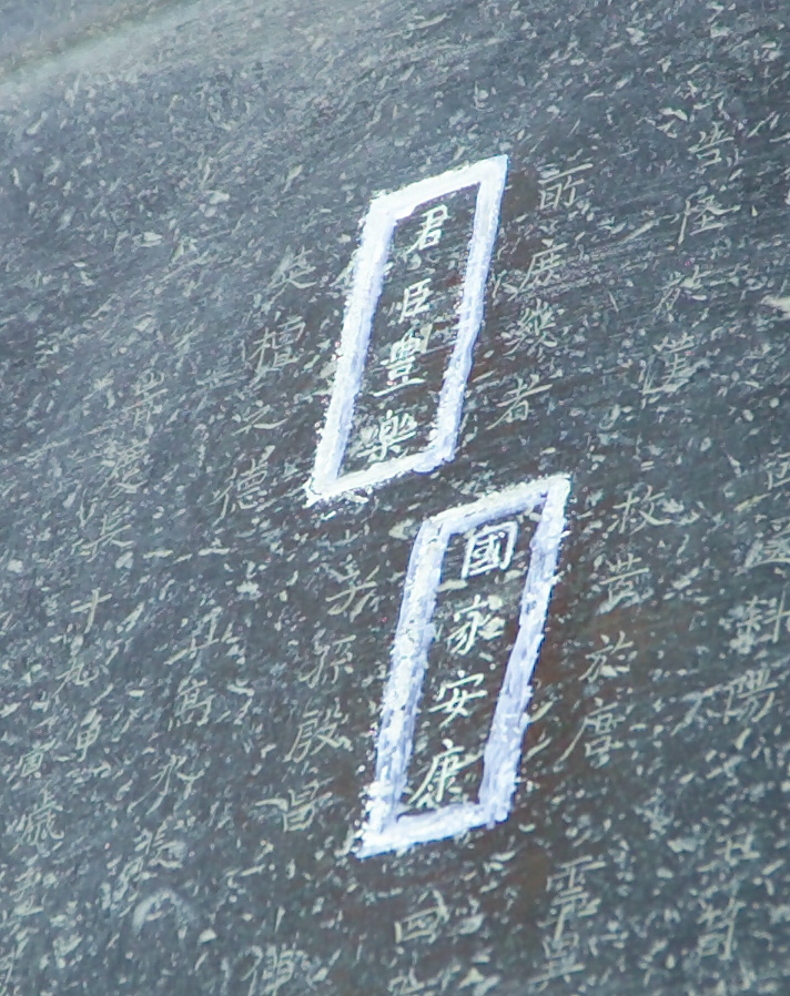 This photograph shows part of the inscription on the bell at Hokoji in Kyoto, Japan. I took the photo and contribute my rights in the file to the public domain; individuals and organizations retain rights to images in the file. This bell dates back to the 17th century, and thus there is no chance that the creator died recently enough to still claim copyright.